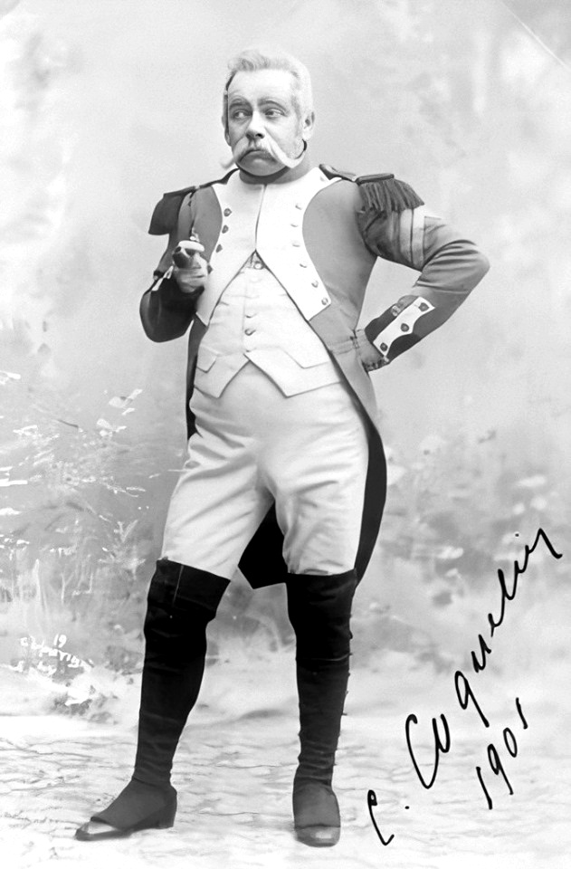 French actor Benoît-Constant Coquelin (1841-1909)